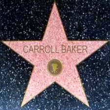 Carrol Baker's star on Hollywood Walk of Fame